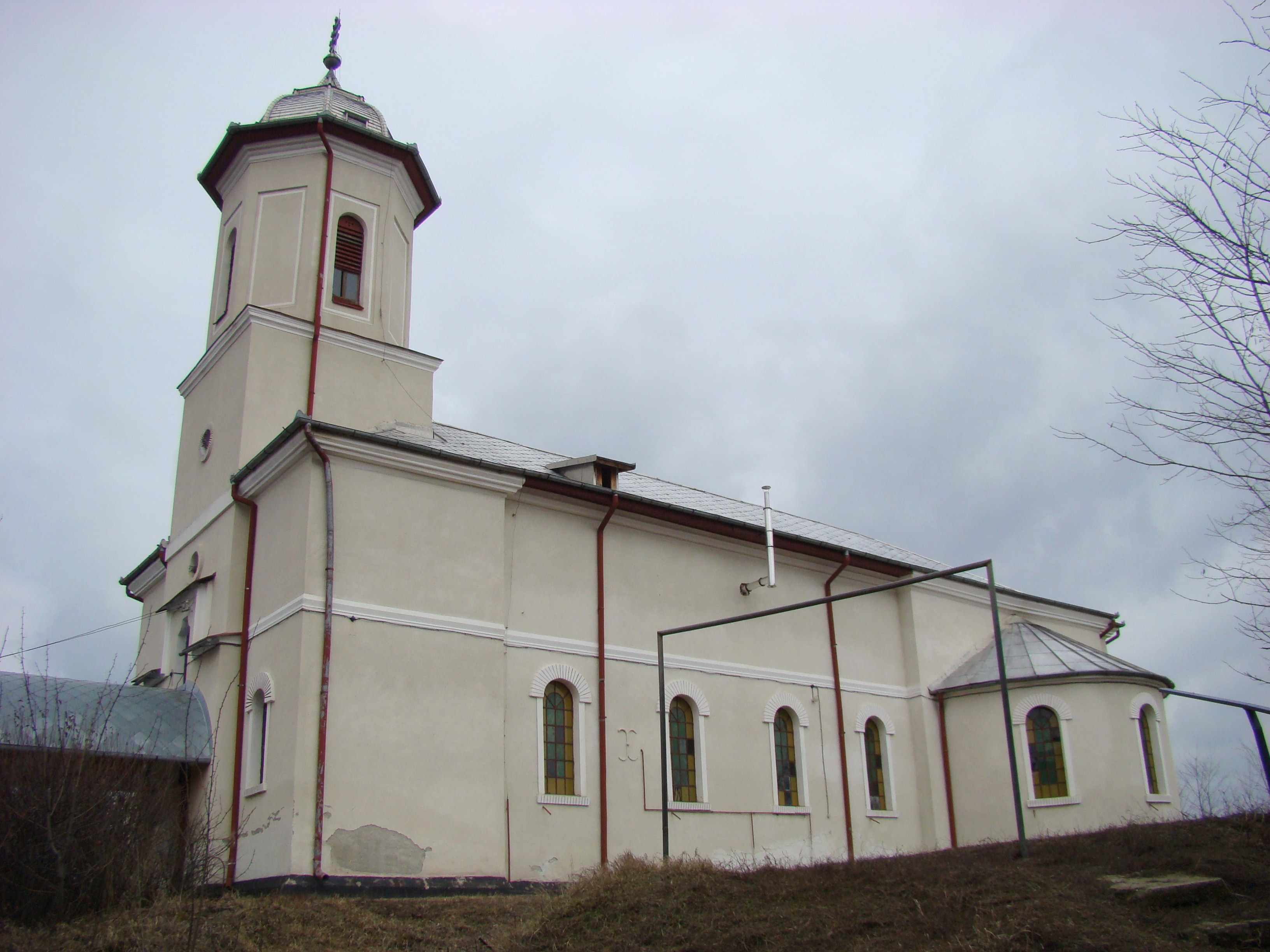 The orthodox church in Boian; Sibiu county, Romania